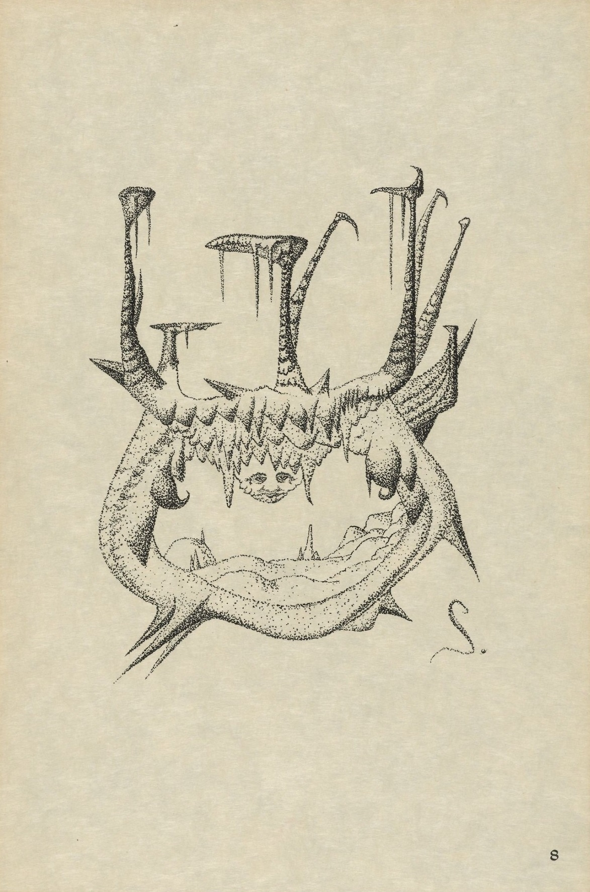 Illustration, plate 8, from Jenseits-Galeri (Berlin: 1907), by Paul Scheerbart (1863-1915). Typ 920.07.7733, Houghton Library, Harvard University